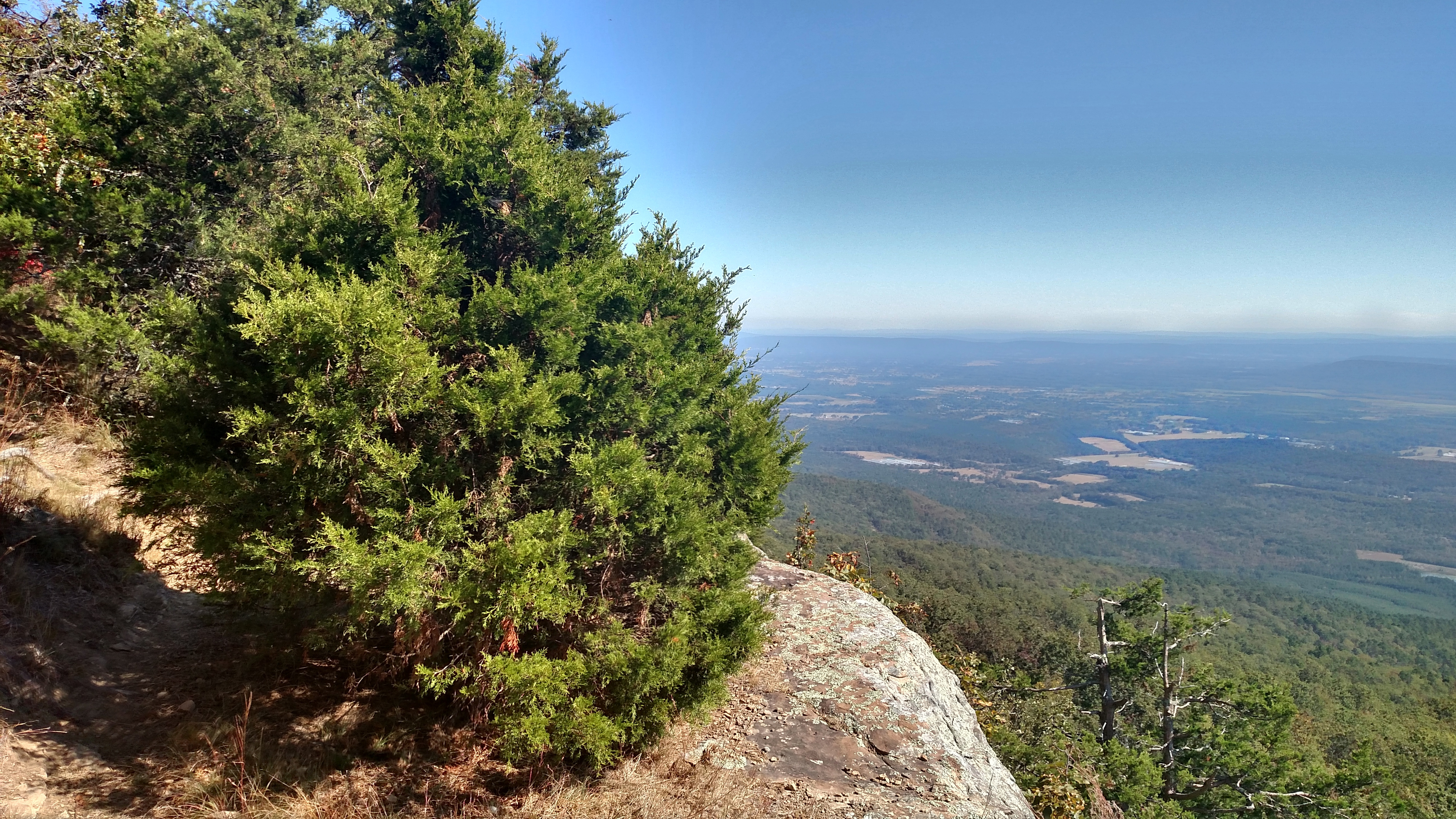 View to the southeast along Benefield East Loop Trail at Mt. Magazine SP